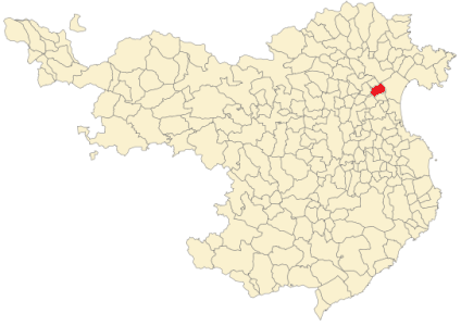 Fortiá